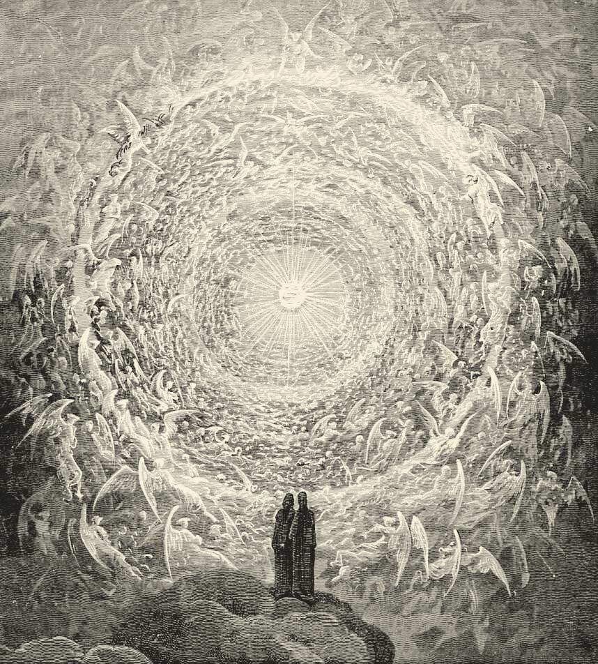 Rosa Celeste: Dante and Beatrice gaze upon the highest Heaven, The Empyrean